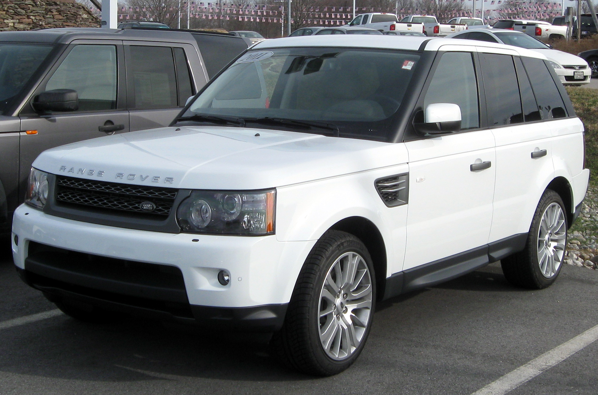 2011 Range Rover Sport photographed in Clarksville, Maryland, USA.